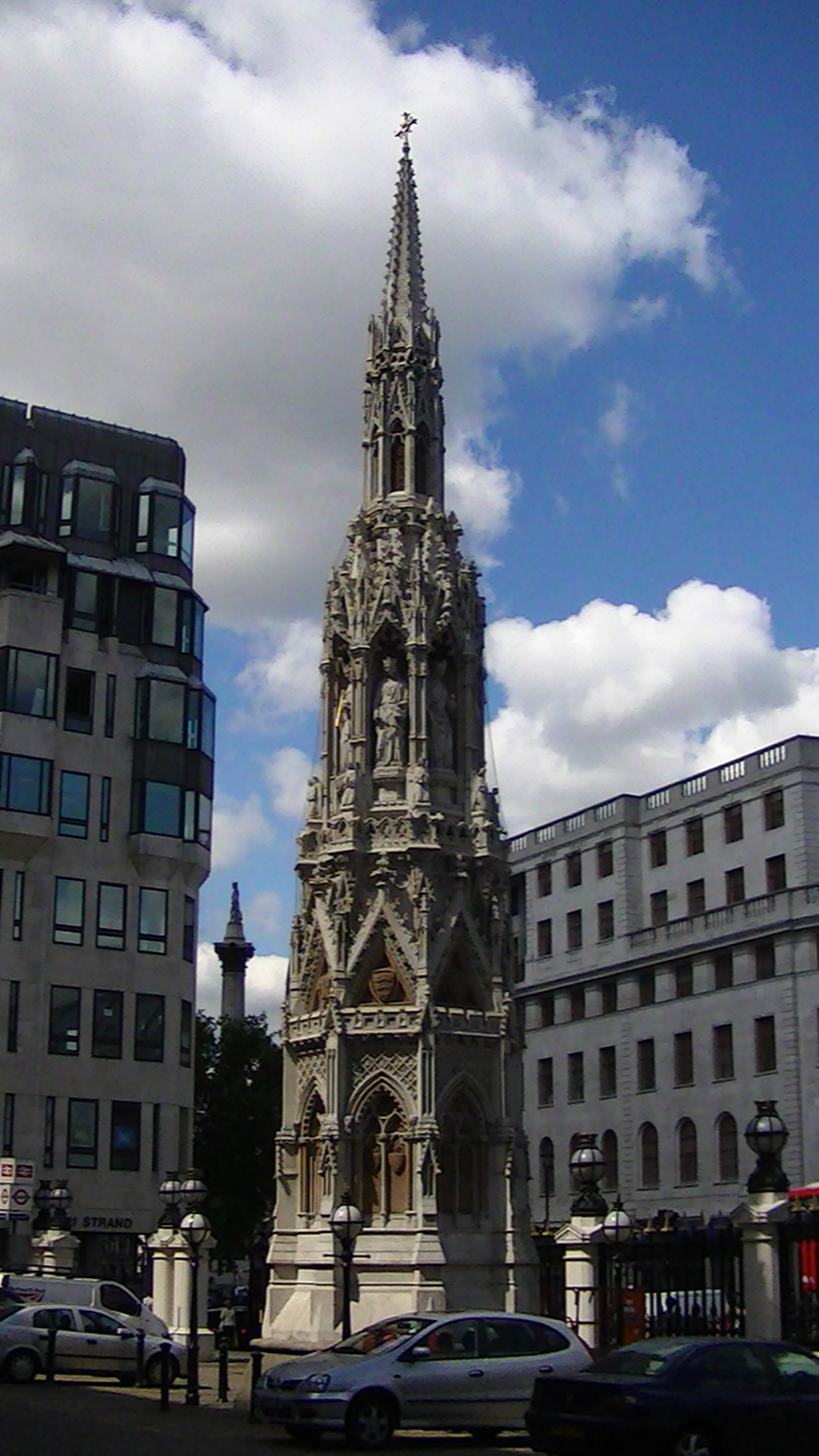 The Eleanor cross at Charing Cross Station, London